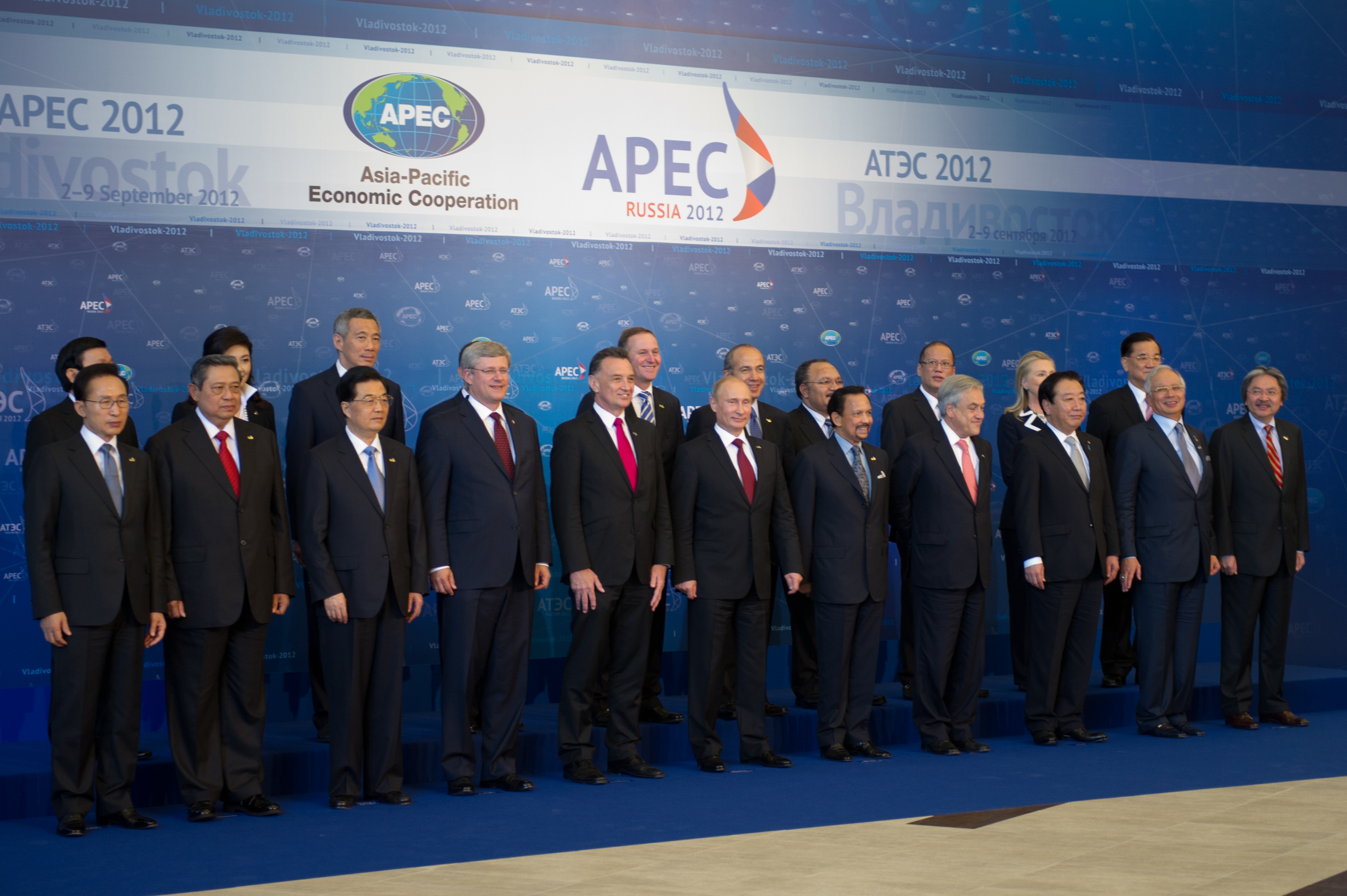 VLADIVOSTOK, Russia (September 9, 2012) U.S. Secretary of State Hillary Rodham Clinton poses with the Asia-Pacific Economic Cooperation (APEC) Leaders for a group photo